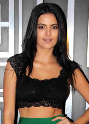 Natasa Stankovic at the screening of Daddy.